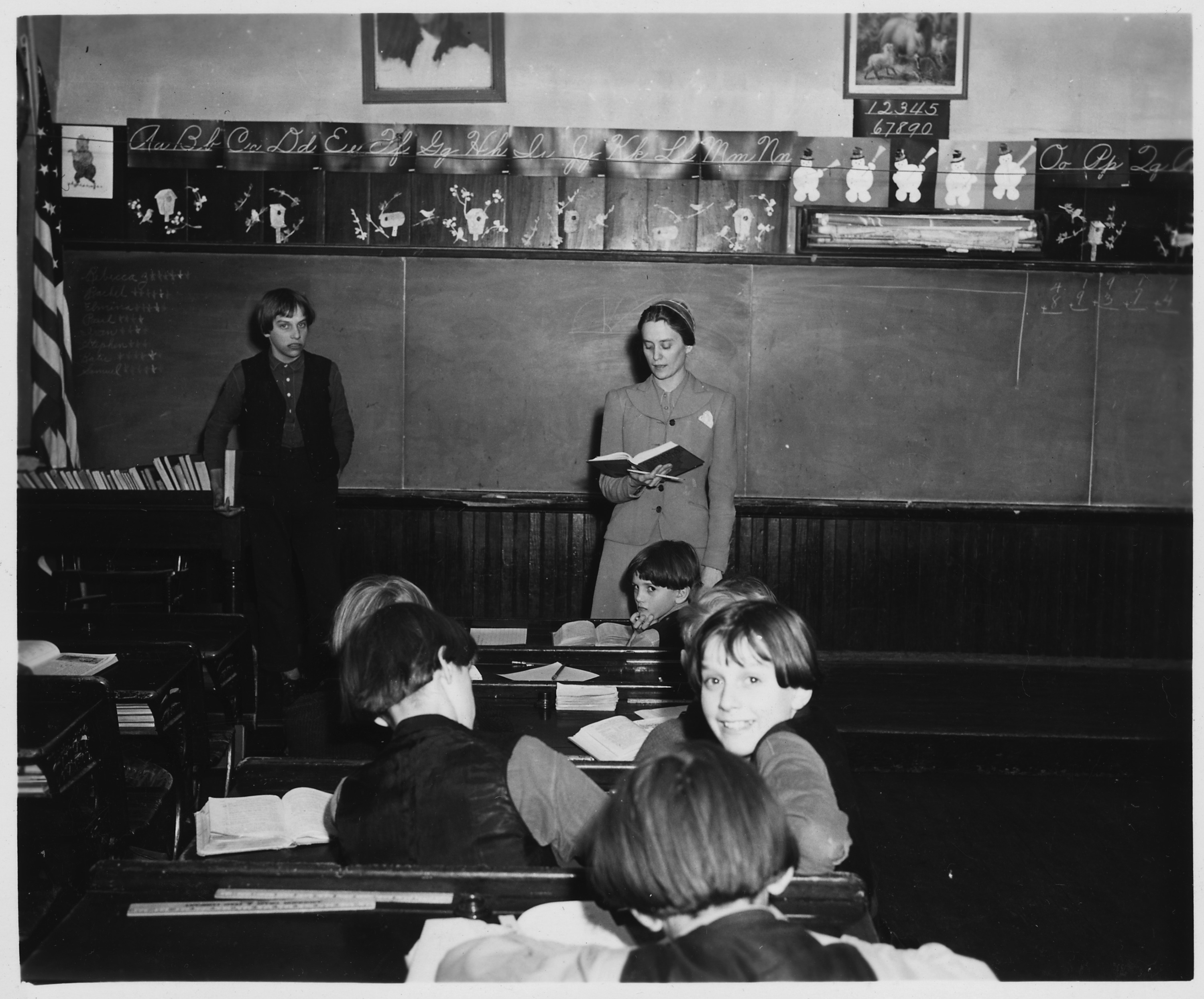 Scope and content: Full caption reads as follows: Lancaster County, Pennsylvania. The teacher of the school is a Church Amish woman, the daughter of a nearby farmer. She attended the Mennonite college in Harrisonburg, Virginia. See 83G 37529 and 37530.